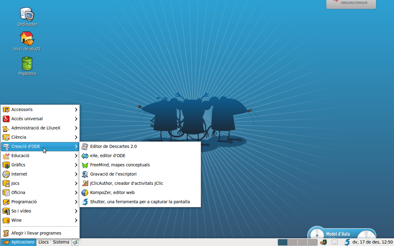 Desktop of LliureX Client